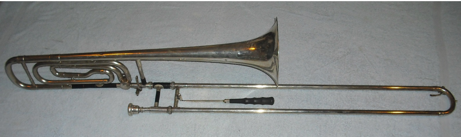 Bass trombone in G, silver plated, "Imperial" model by Boosey and Hawkes, London.